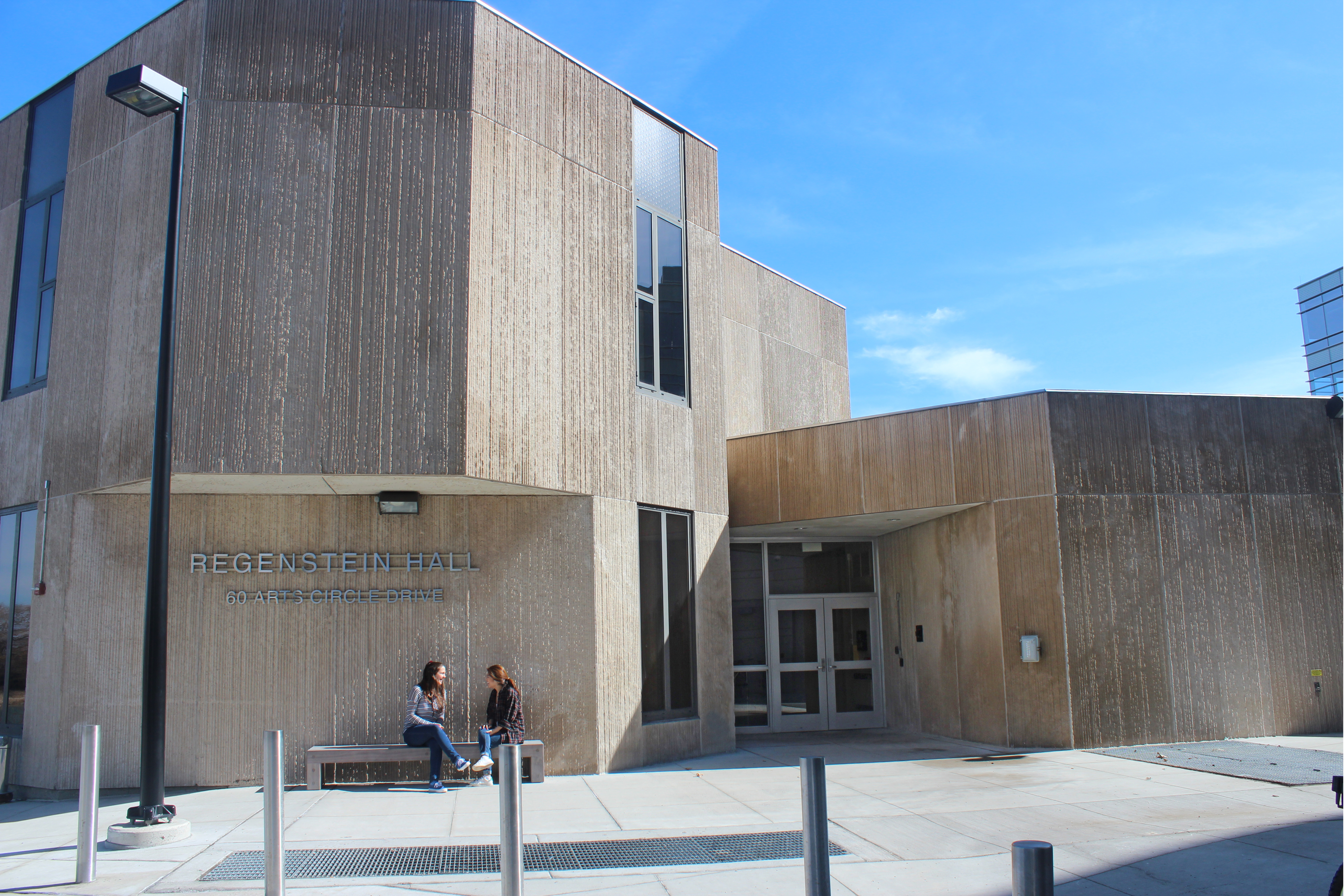 reg